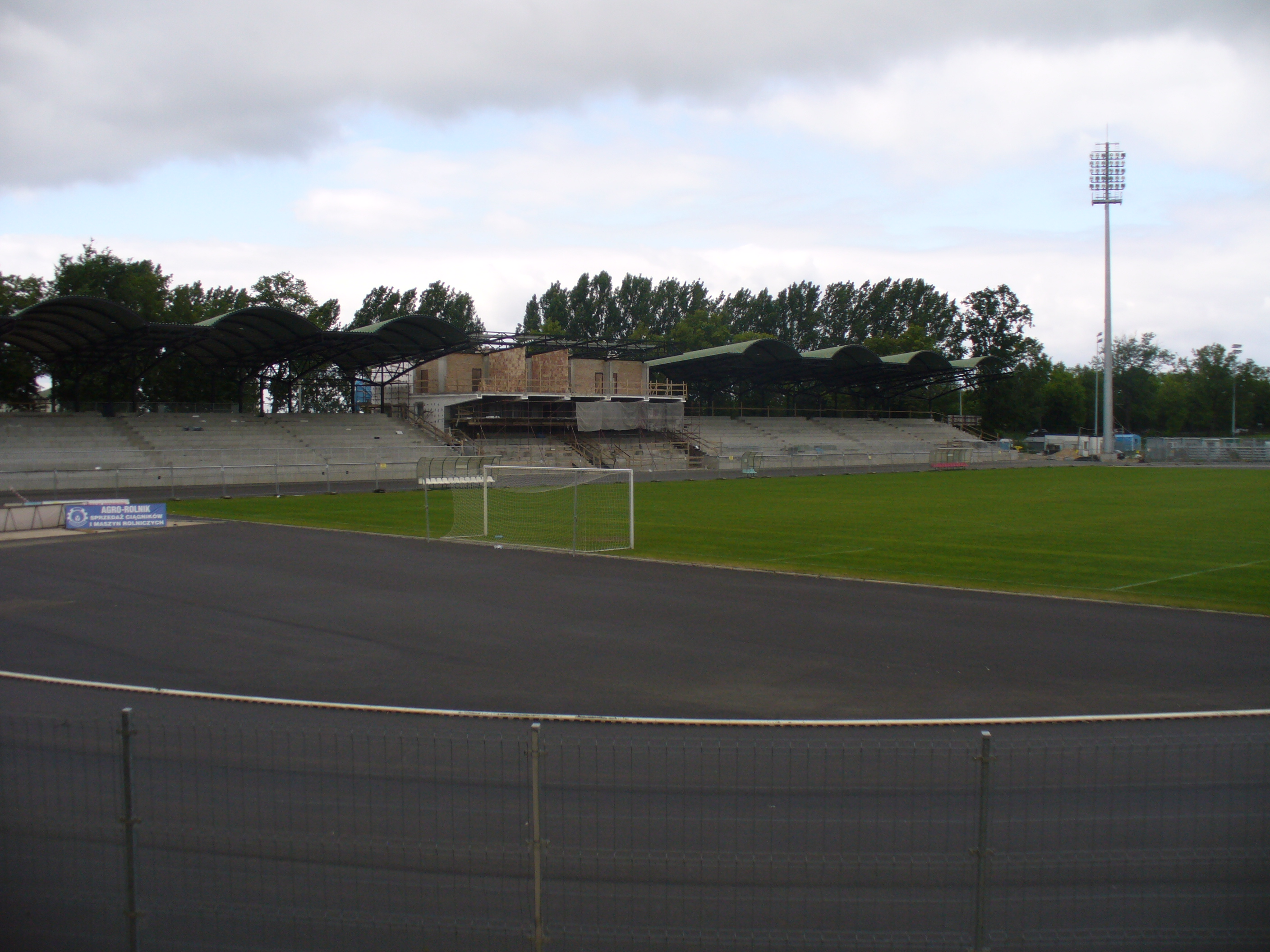 Stadium's construction site in Łomża